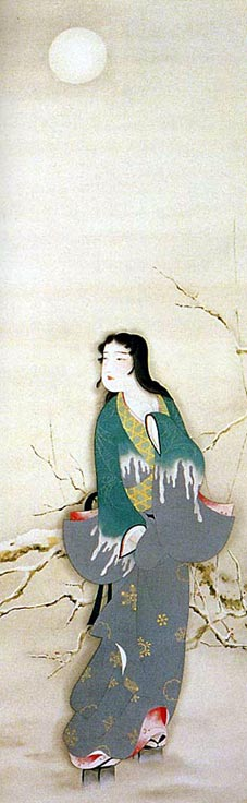 Painting of a Yuki-onna Found at